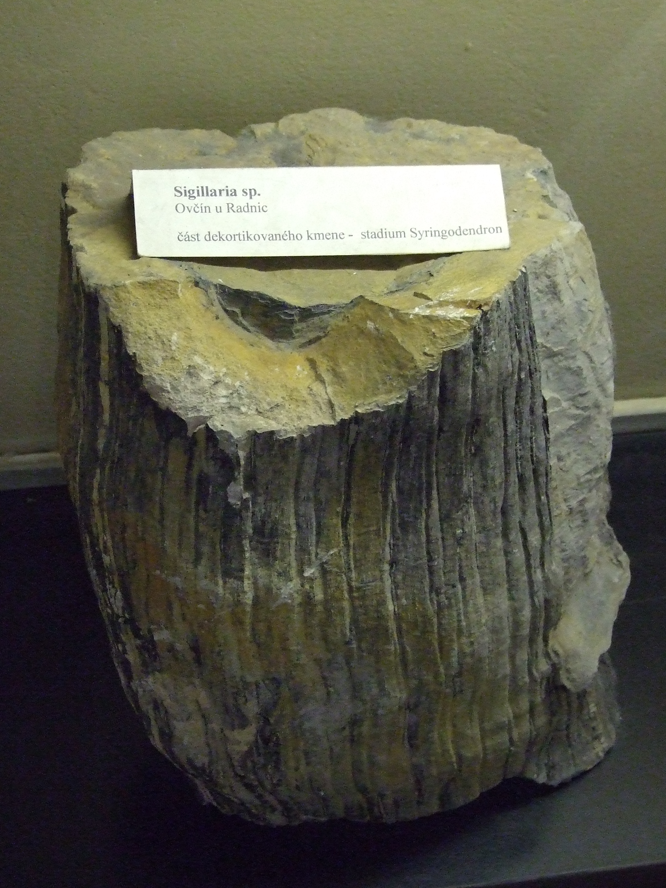 Fossil Sigillaria species trunk at the Palaeontological exhibition, National Museum in Prague